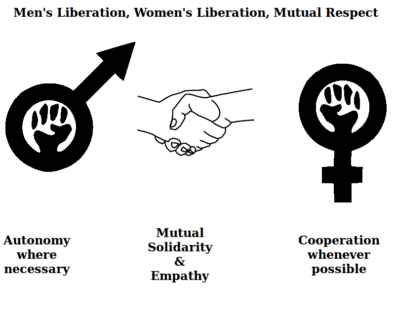 An image on the topic of "cooperation, mutual respect between male liberation and women's liberation.movements" uuploaded by User:Maleliberation in 2013.